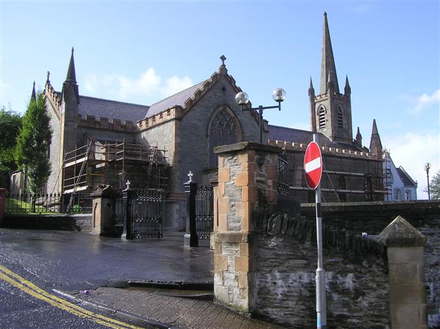 St Columb's RC Church, Derry / Londonderry It is located at Chapel Road